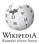 Wikipedia logo 2.0